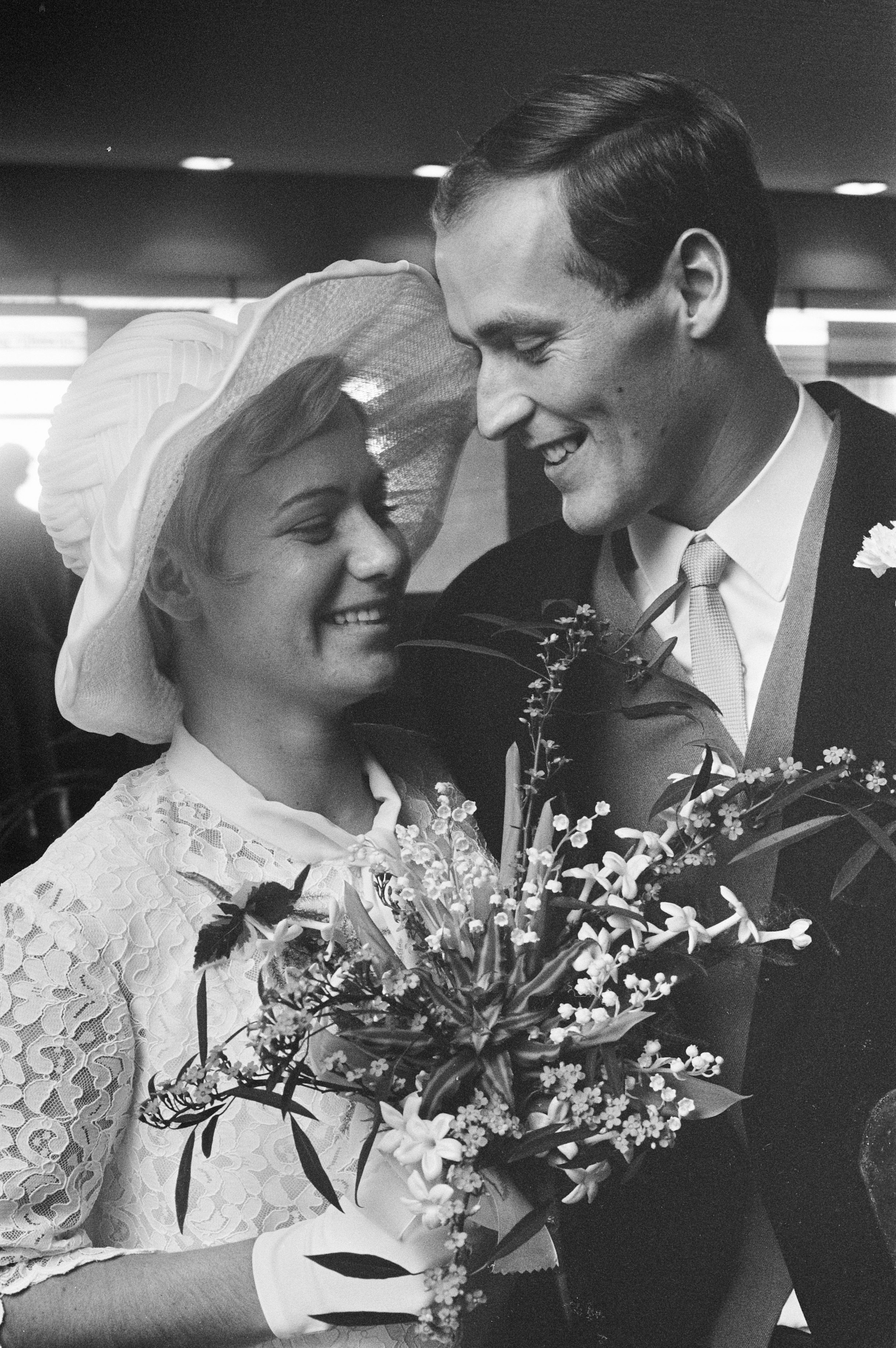 Betty Heukels and Hans Wouda are getting married